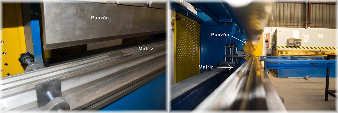 Detail of the punch and the counterfoil of the Machine of turning.